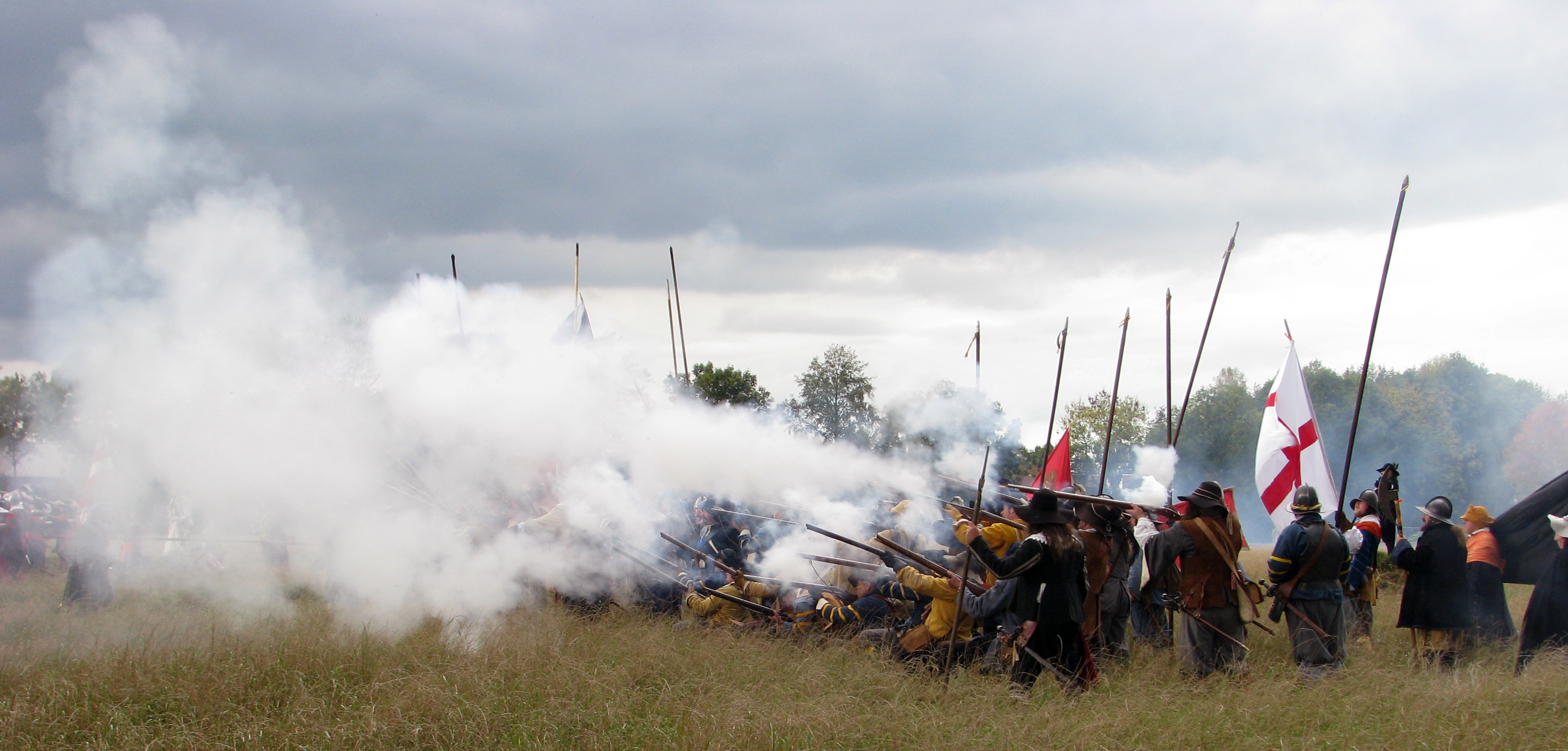 A line of Dutch troops fire a salvo.